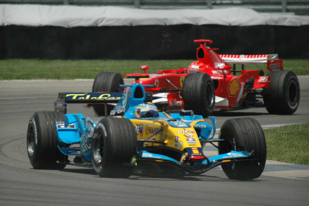 Fernando Alonso (Renault F1) leads Michael Schumacher (Scuderia Ferrari) at the 2006 United States Grand Prix.